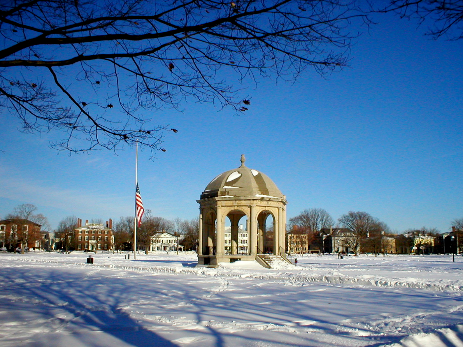 A wintertime view of historical homes along Salem Common